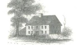 Depiction of the Alden Tavern in Lebanon, Connecticut, by Benson Lossing.